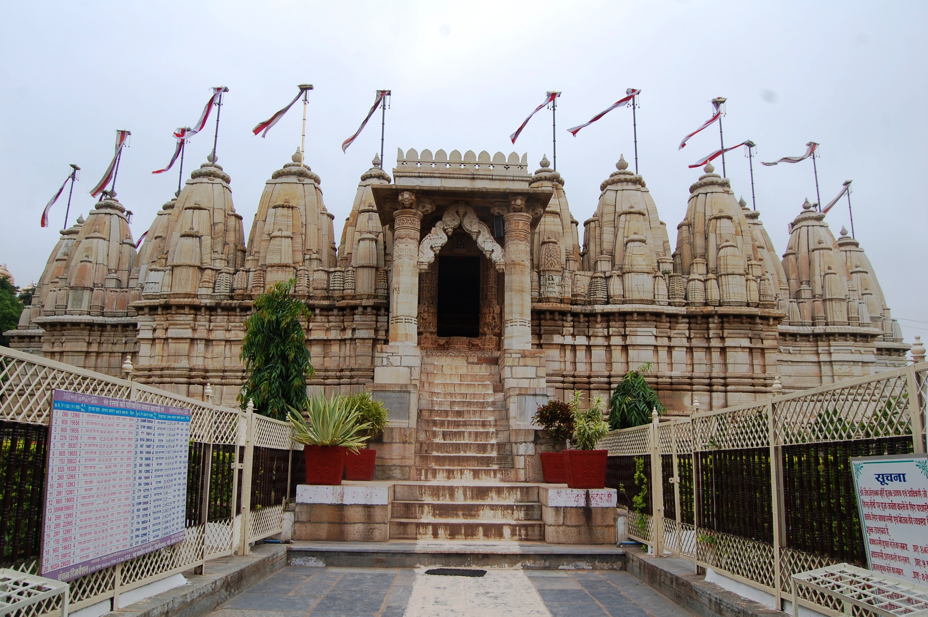 Sathis Deori Jain temple, Chittorgarh